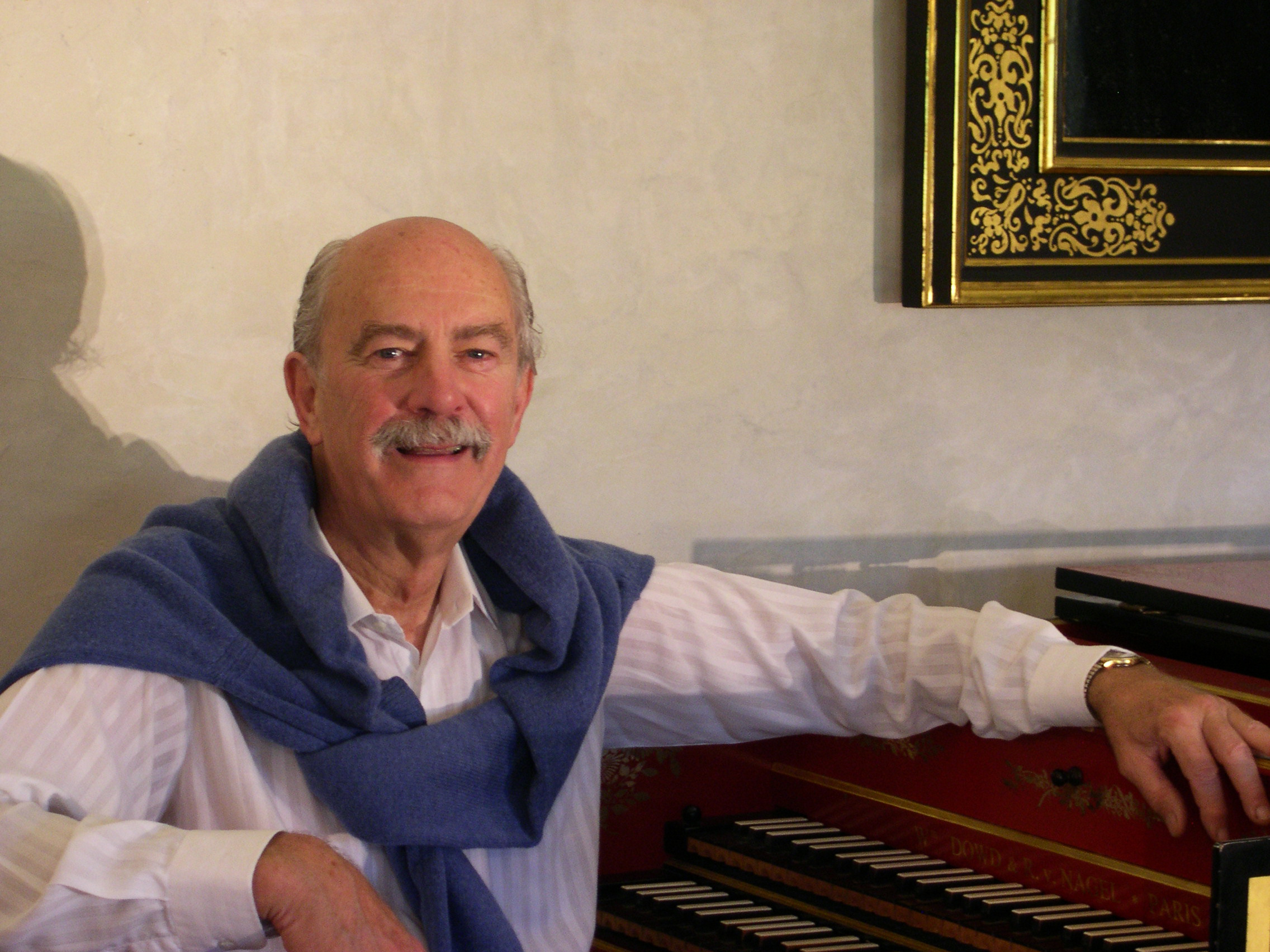 portrait of harpsichordist & conductor Alan Curtis taken in his home, Florence 2006